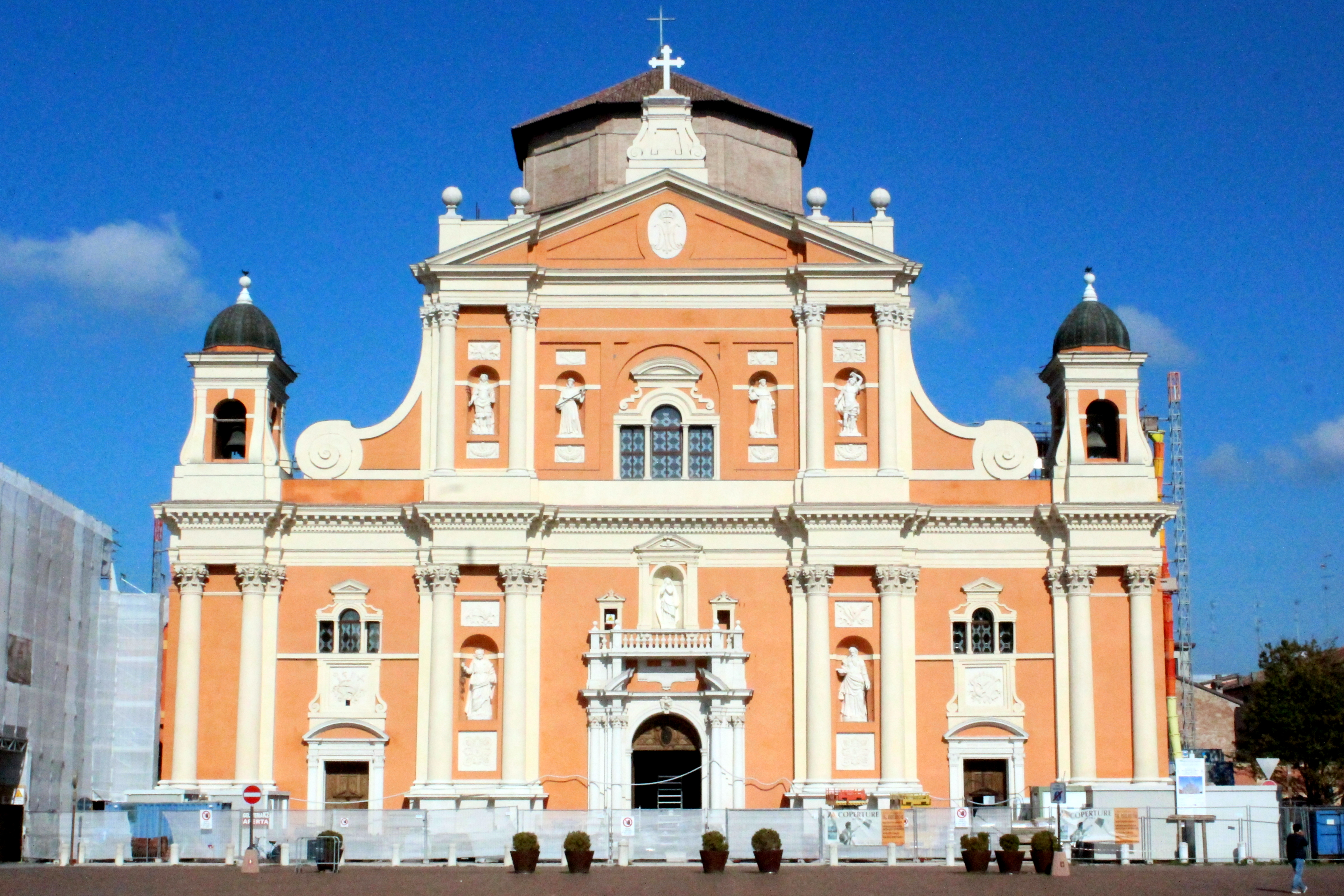 Basilica Cattedrale in Carpi (Duomo di Carpi), Province of Modena, Emilia-Romagna, Italy